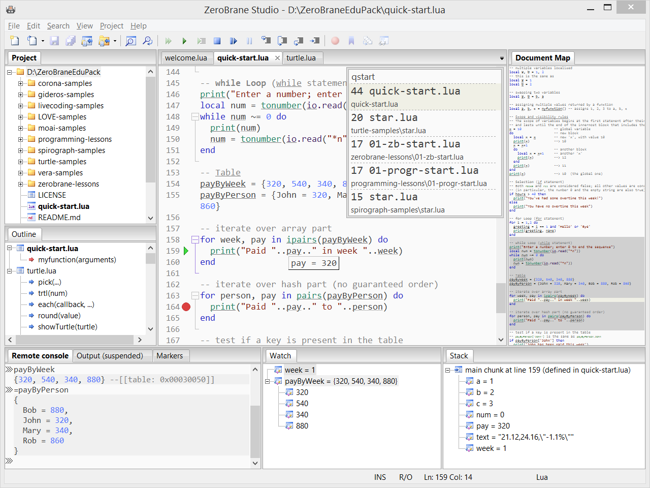 A screenshot of ZeroBrane Studio